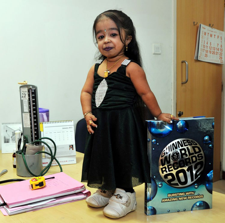 Jyoti Amge, world smallest woman. Guinness official and Dr at the hospital measuring Jyoti for certification as world smallest woman.